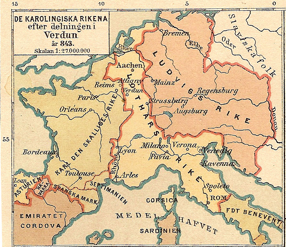 Historic map (swedish) of the karolin countries after the division in Verdun 843 ad.